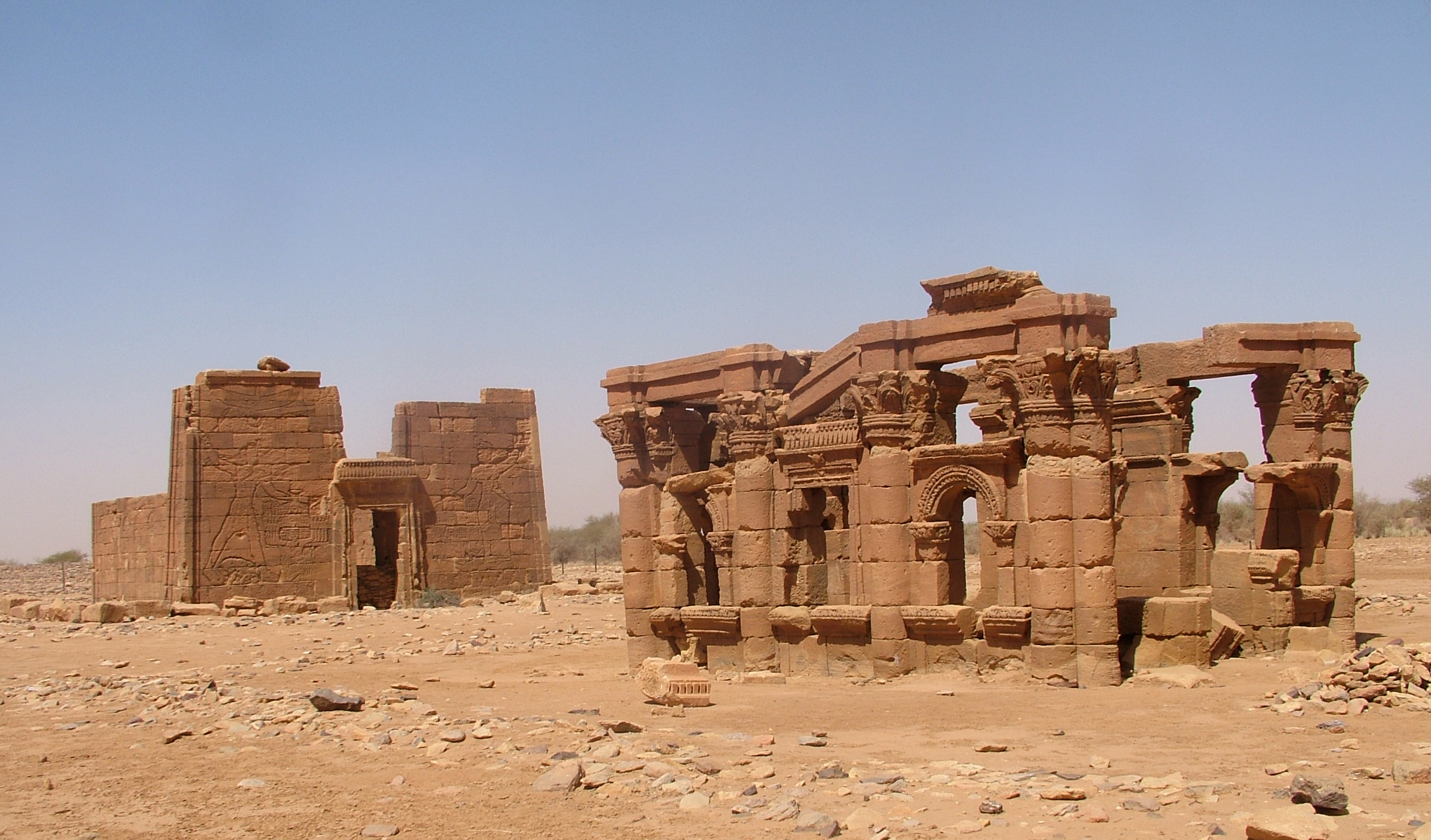 Roman Kiosk andApedamak (lion god) temple in Naqa, Nubia Sudan (1st c. AD)